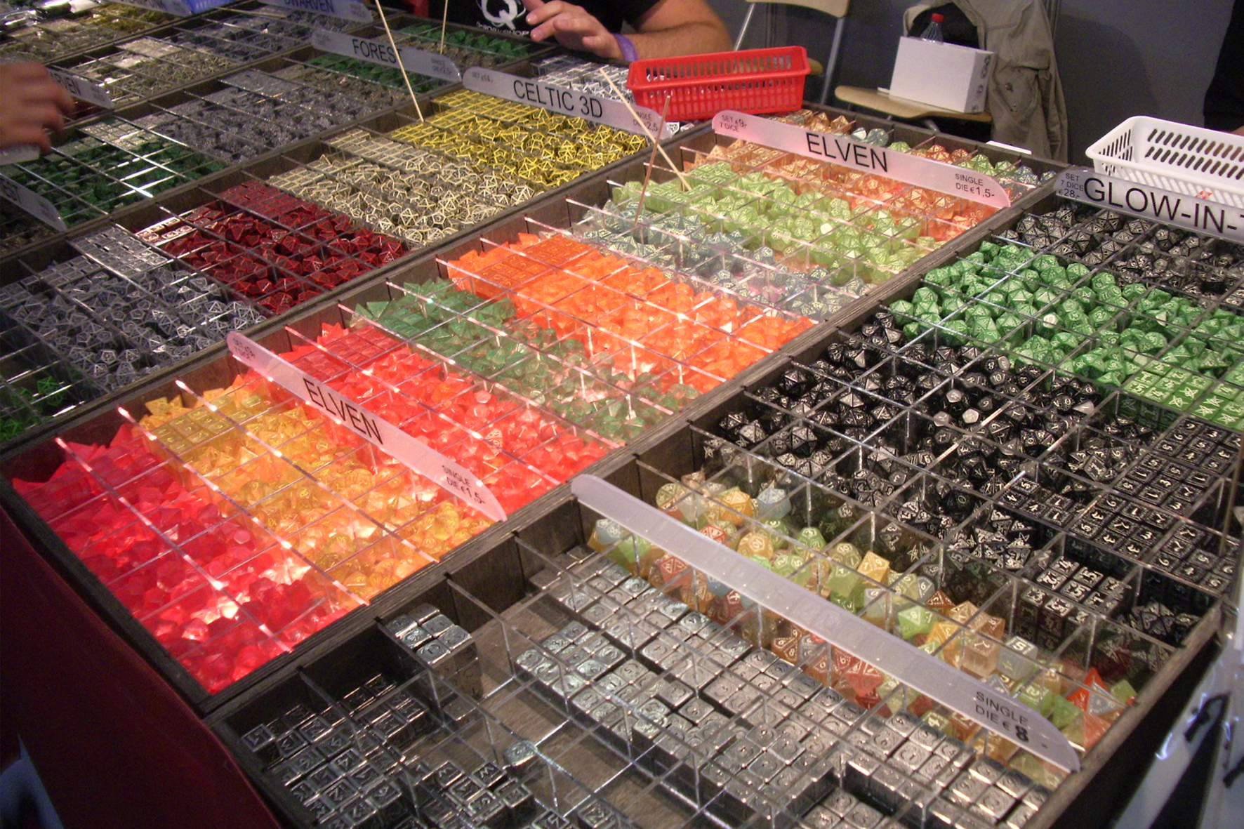 Different lot of dices by Q-whorkshop at the "Japan Expo 2012".